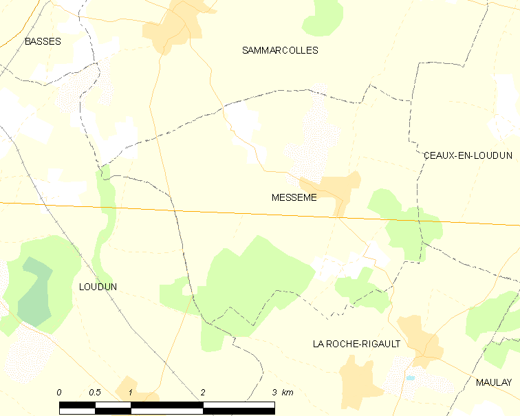 Map of French municipality Messemé